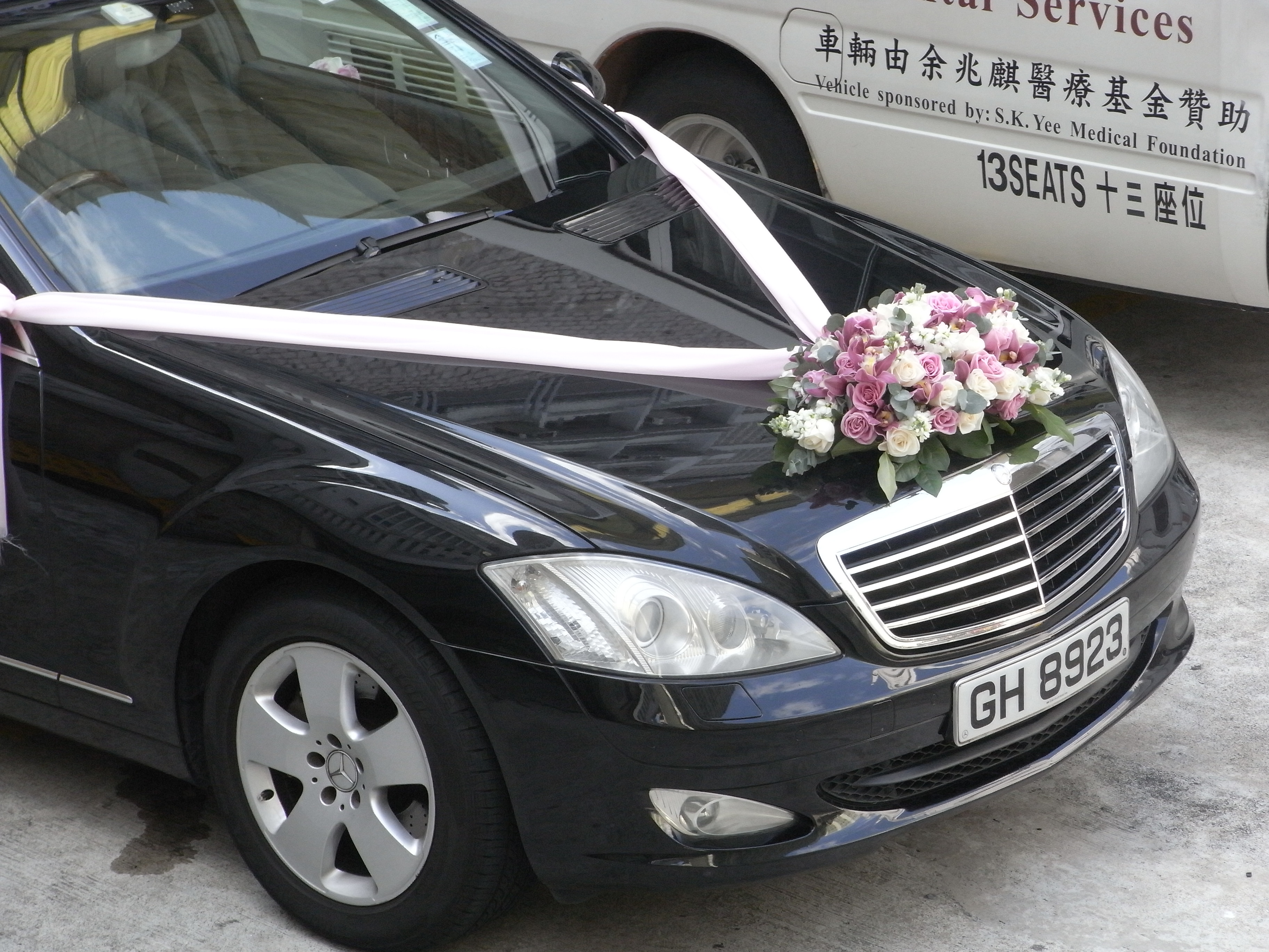 香港島zh:半山區